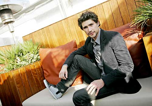 Actor Matt Dallas.